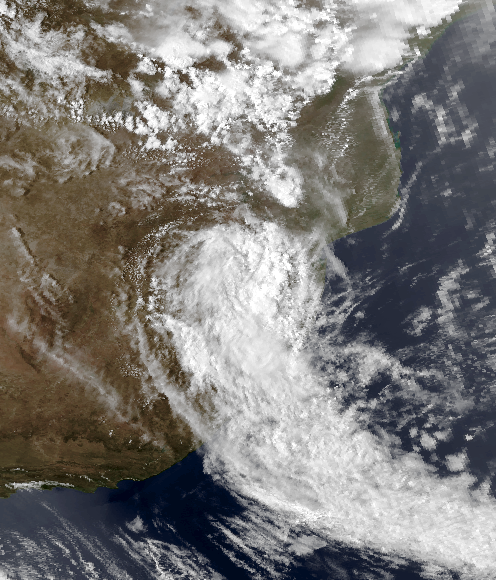 Tropical Storm Domoina over South Africa on January 30, 1984.